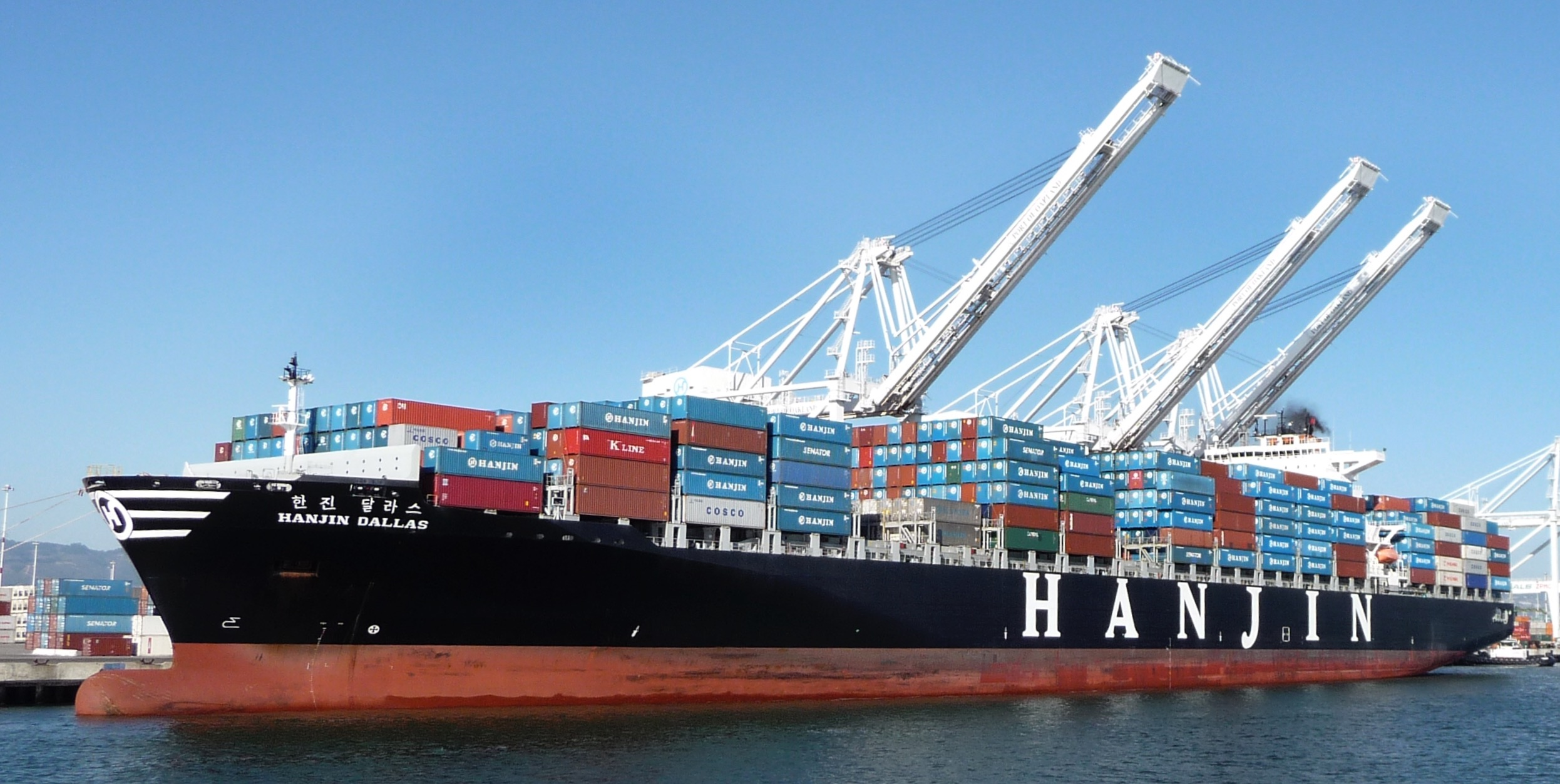 Container ship Hanjin Dallas